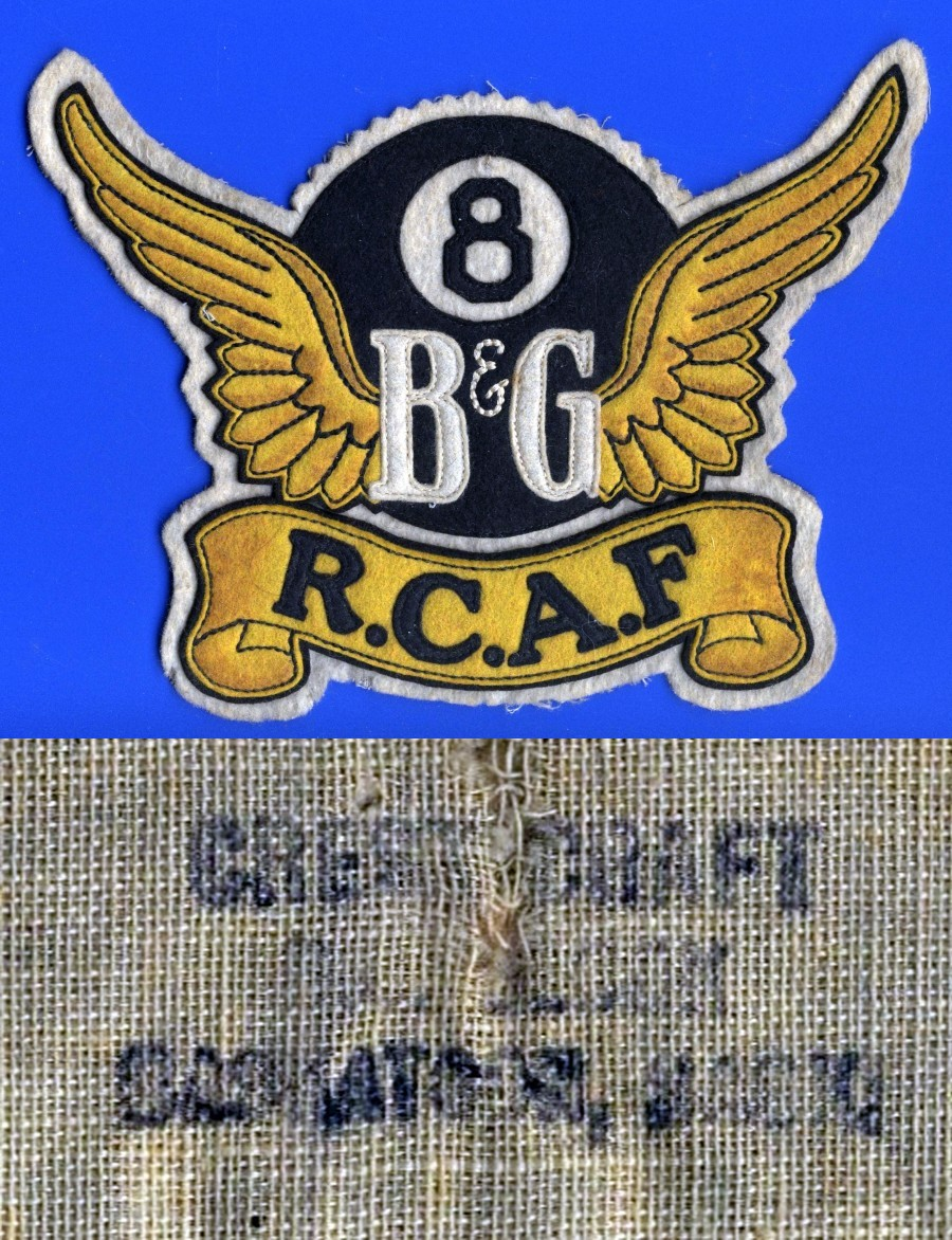 A RCAF WWII jacket patch for #8 B&G (Bomb & Gunnery) School located at Lethbridge, AB trained Bomb Aimers for all Squadrons. The Crest Craft D.C. Block back-stamp dates to the early 1940's